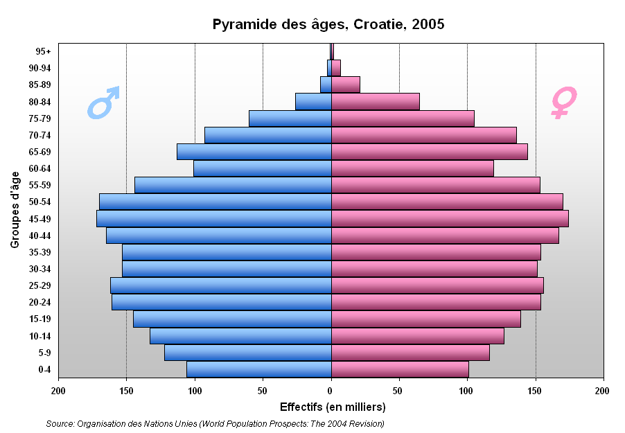 Croatia Population pyramid, 2005